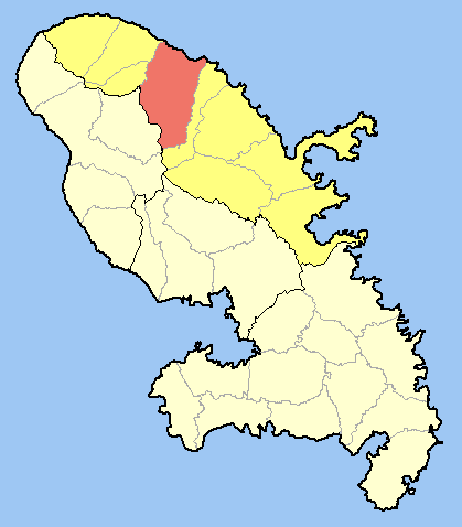 Location of Le Lorrain within Martinique